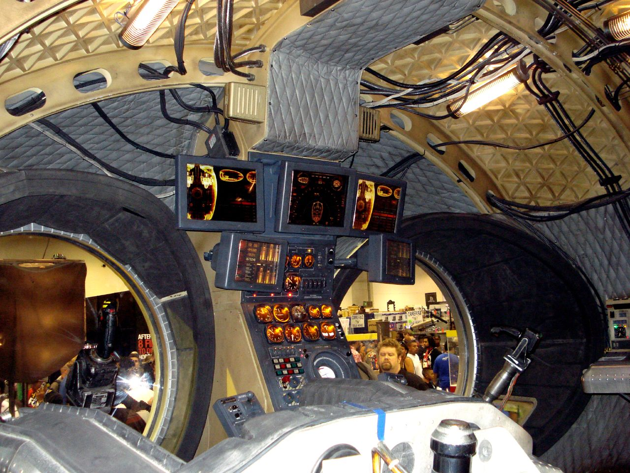 Interior of "Archie", Nite Owl's ship from Watchmen: The Movie, at ComicCon'08